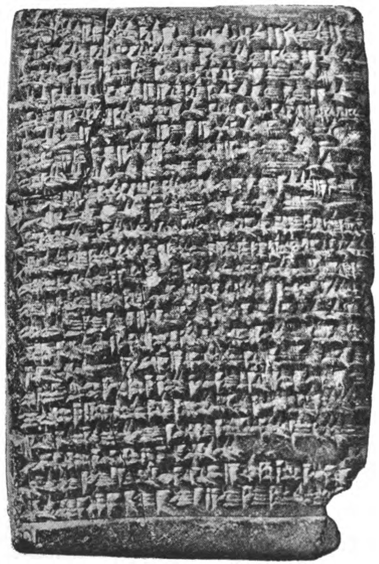 Obverse of tablet A of Mesopotamian Chronicle of Early Kings